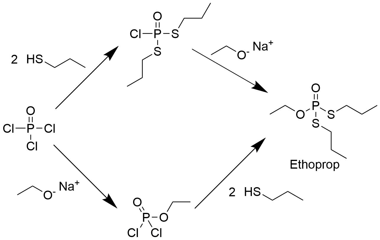 This synthesis was taken from Unger, Thomas A. (1996-12-31). Pesticide Synthesis Handbook. William Andrew. ISBN 9780815518532.